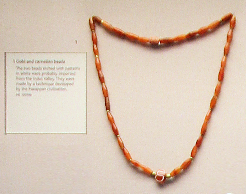 Ur Grave gold and carnelian beads necklace. British Museum notice: "Gold and carnelians beads. The two beads etched with patterns in white were probably imported from the Indus Valley. They were made by a technique developped by the Harappan civilization"